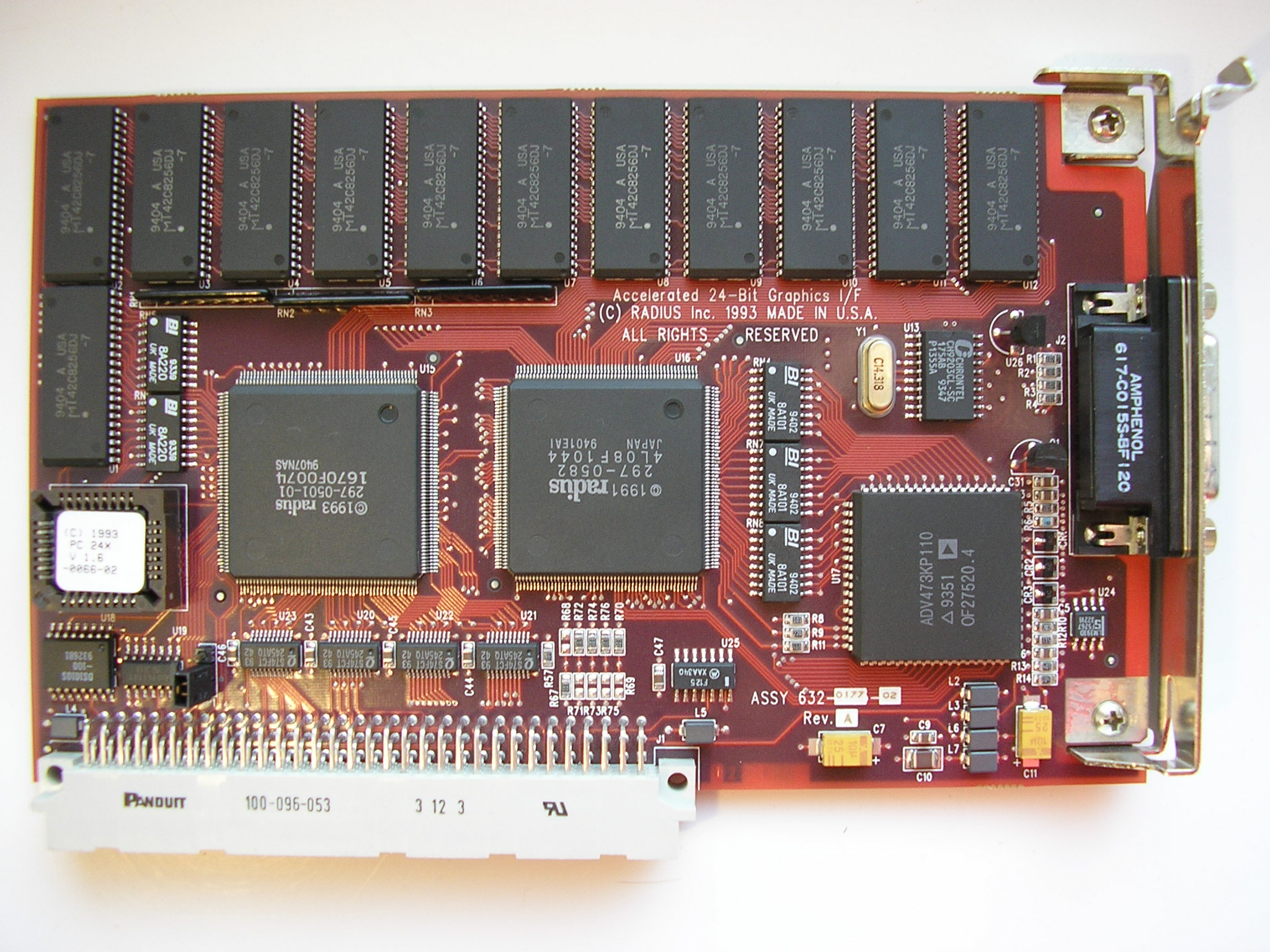 Radius PrecisionColor Series 24X (front), NuBus video card for Macintosh 1993